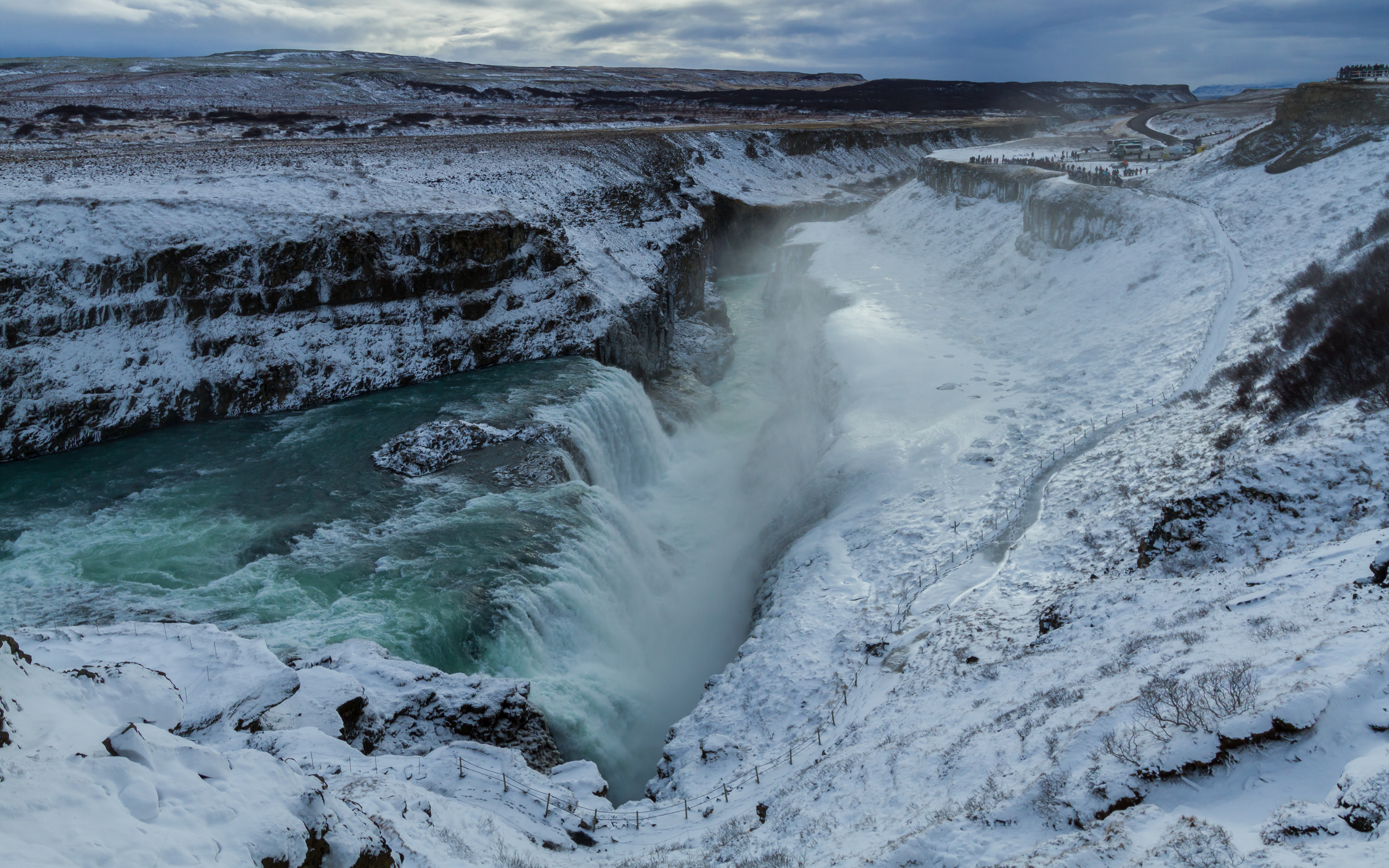 Waterfalls of Gullfoss under the snow in Iceland